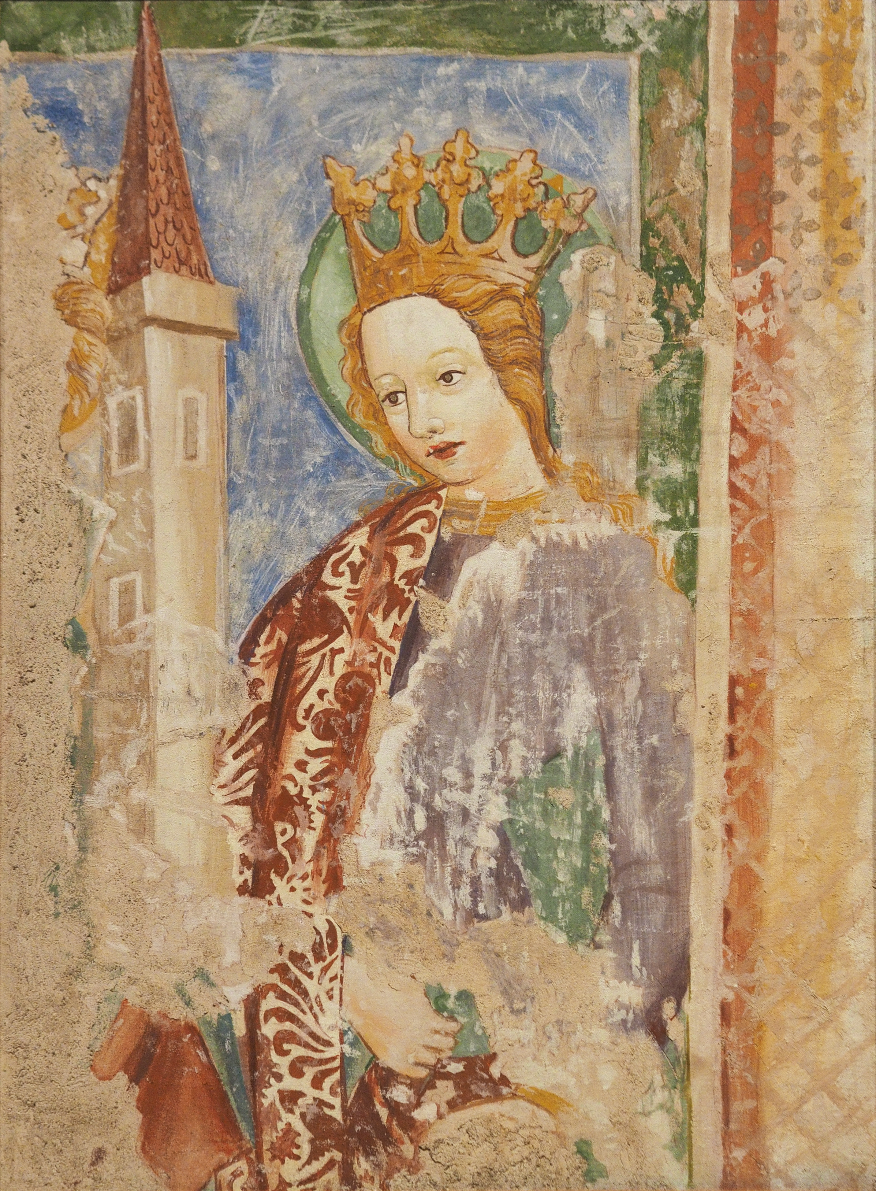 Saint Barbara painting, National Gallery of Slovenia, the copy of church fresco from 1453 in Crngrob, Slovenia. Original by master Bolfgang 1453; copy Dušan Petrič 1949Slovenščina: Cerkev Marijinega oznanjenja, Crngrob; kopija 1949 (Dušan Petrič)